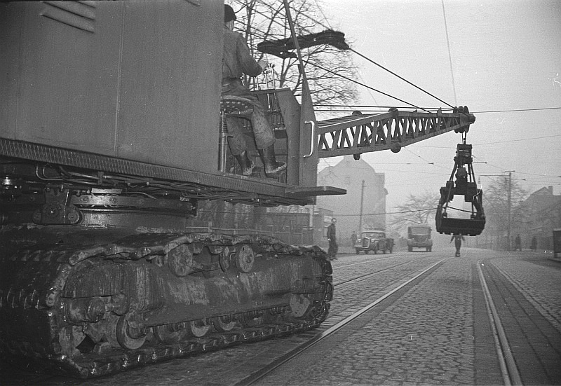 Original image description from the Deutsche Fotothek Bagger